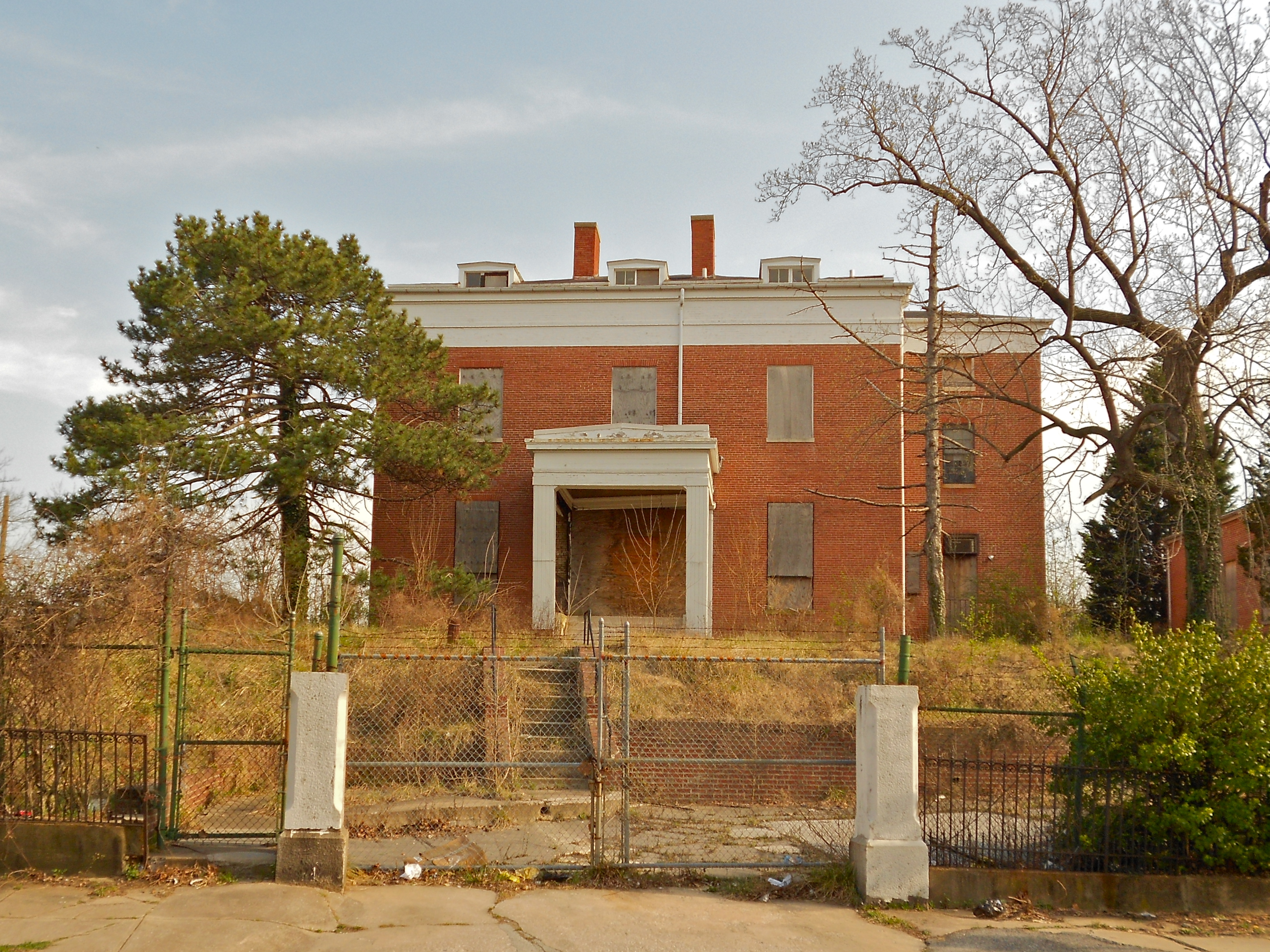 Upton on the NRHP since July 27, 1994. At 811 W. Lanvale St. just west of central Baltimore, Maryland. Strange place - an old country house in the middle of an old urban area. The country house was there first.